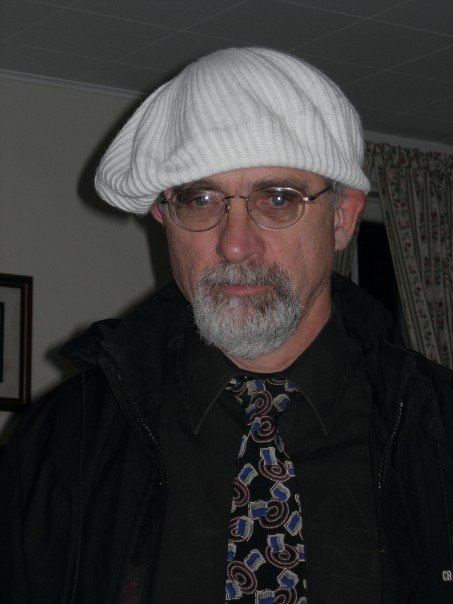 Ron Hynes in 2006